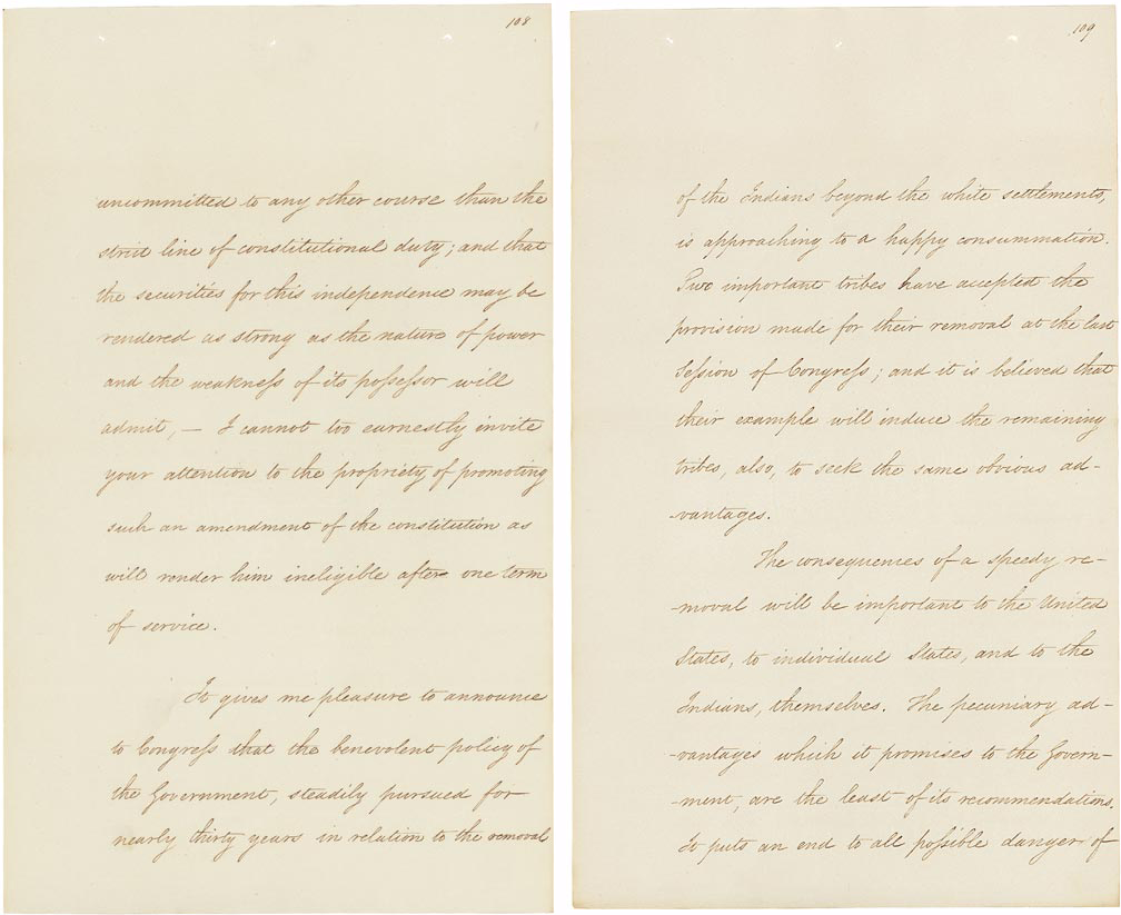 Andrew Jackson's message to Congress, justifying the relocation of southeastern Native American tribes allowed by the Indian Removal Act of 1830.